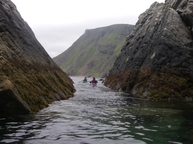 A' Bhrìdeanach Point looking east to Bloodstone Hill, Rùm Scotland